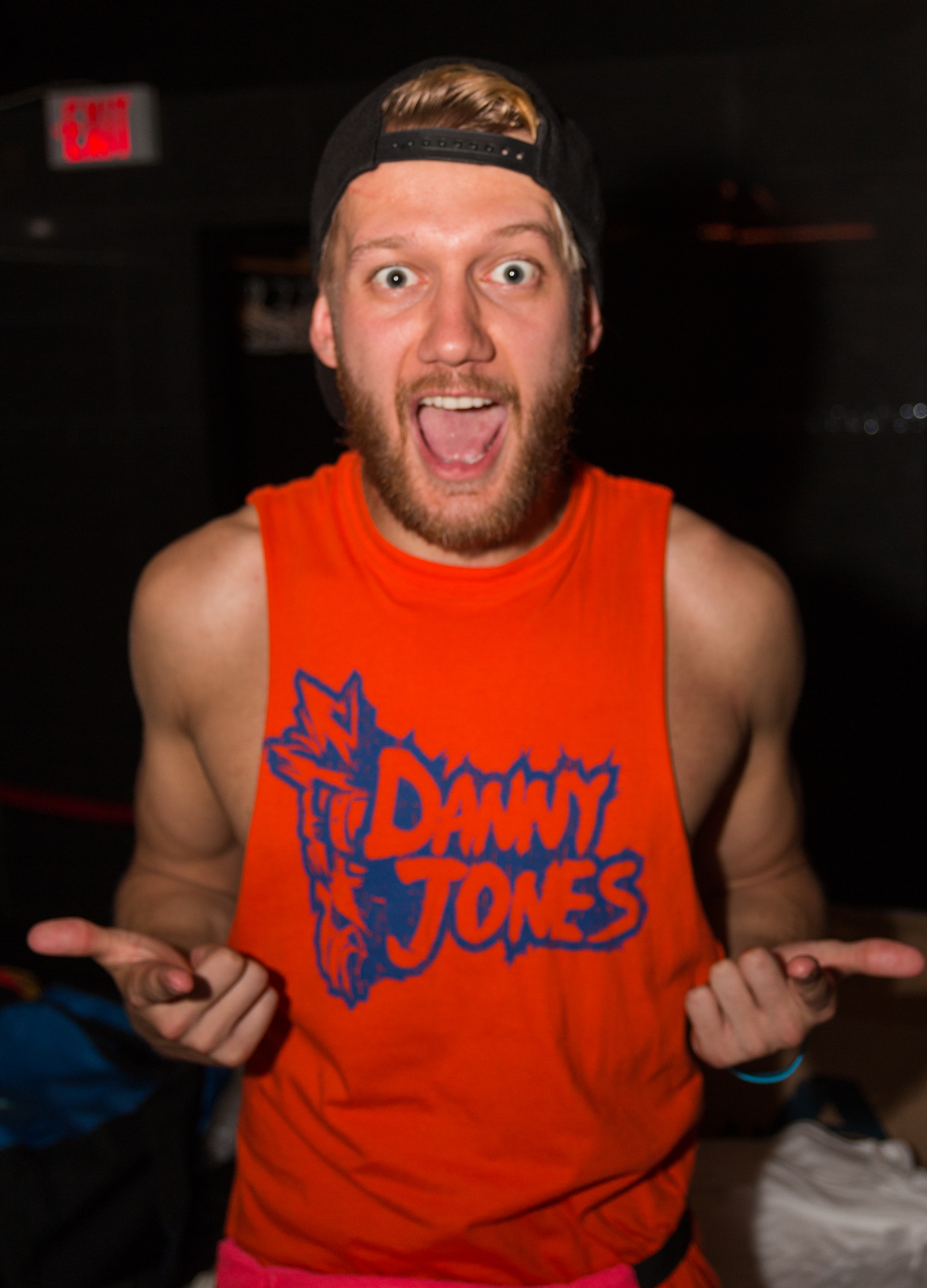 Independent wrestler Mark Andrews at Smash Wrestling's Smash Vs Progress: Uncensored show in Oshawa, ON